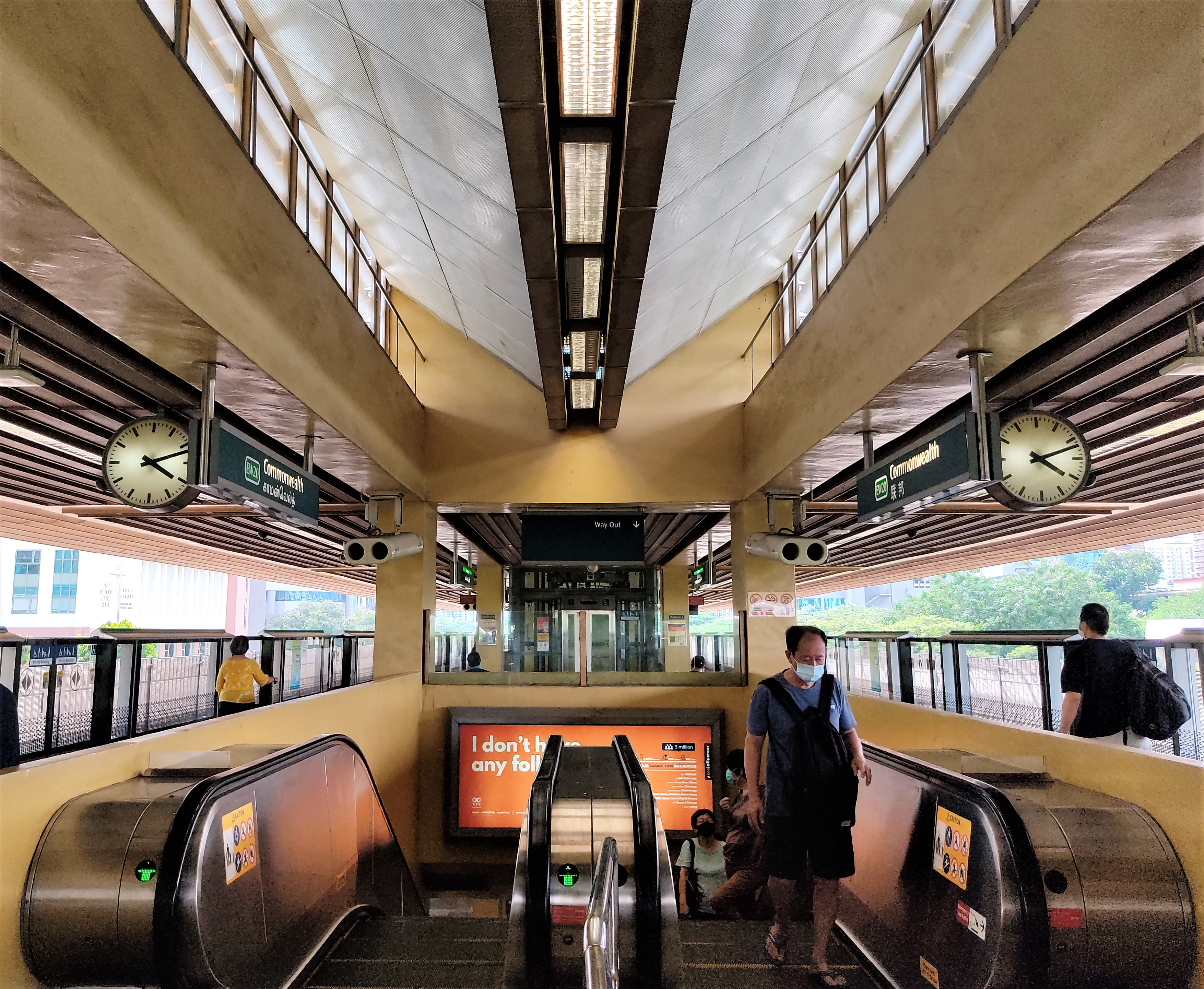 EW20 Commonwealth station